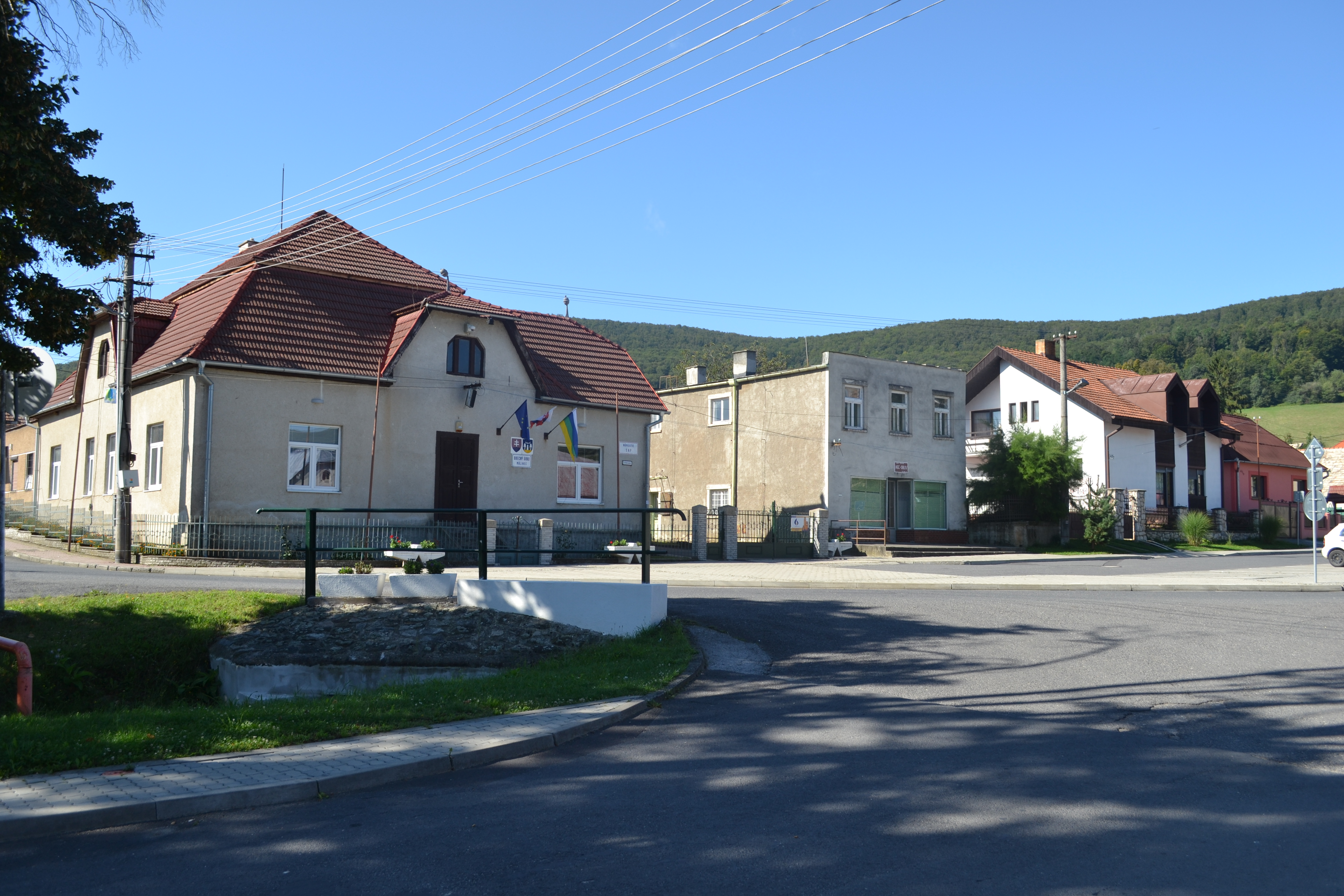 Municipal Office in the village MálinecSlovenčina: Obecný úrad v Málinci